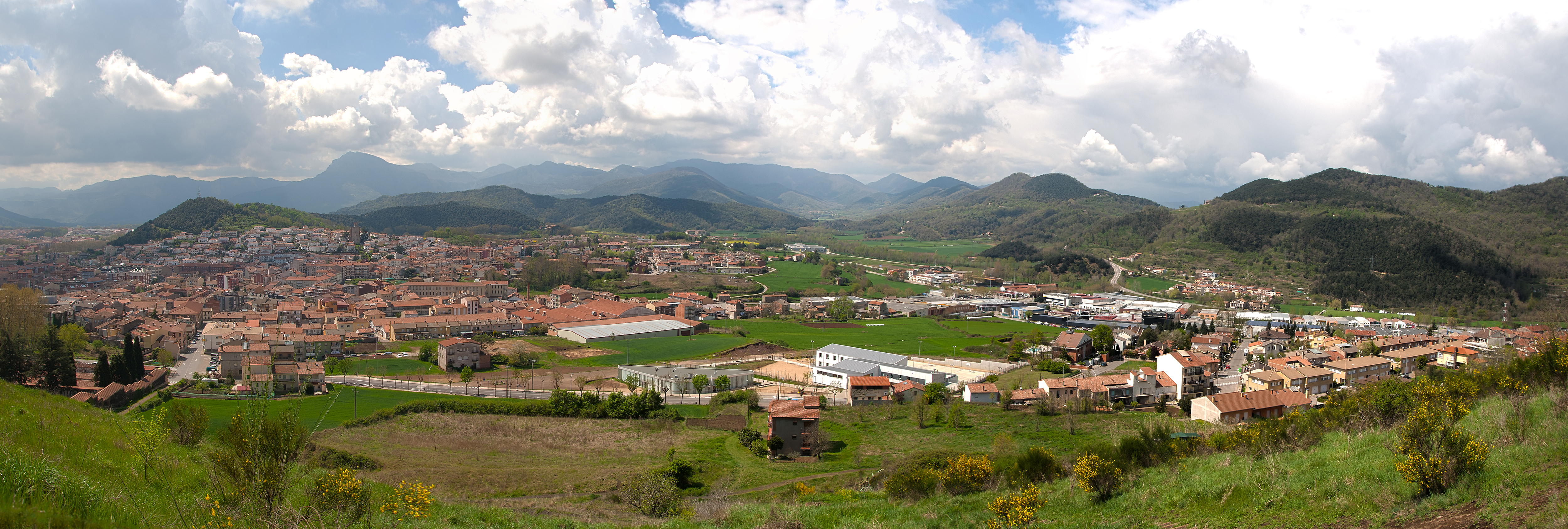 Olot urban view from Montsacopa volcano